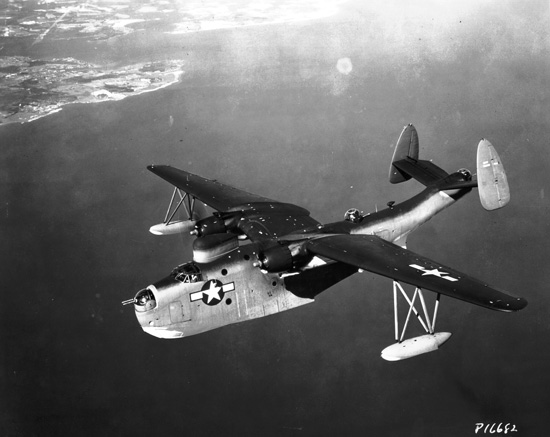 Catalog #: 00006374 Manufacturer: Martin Designation: PBM Official Nickname: Mariner Notes: Repository: San Diego Air and Space Museum Archive